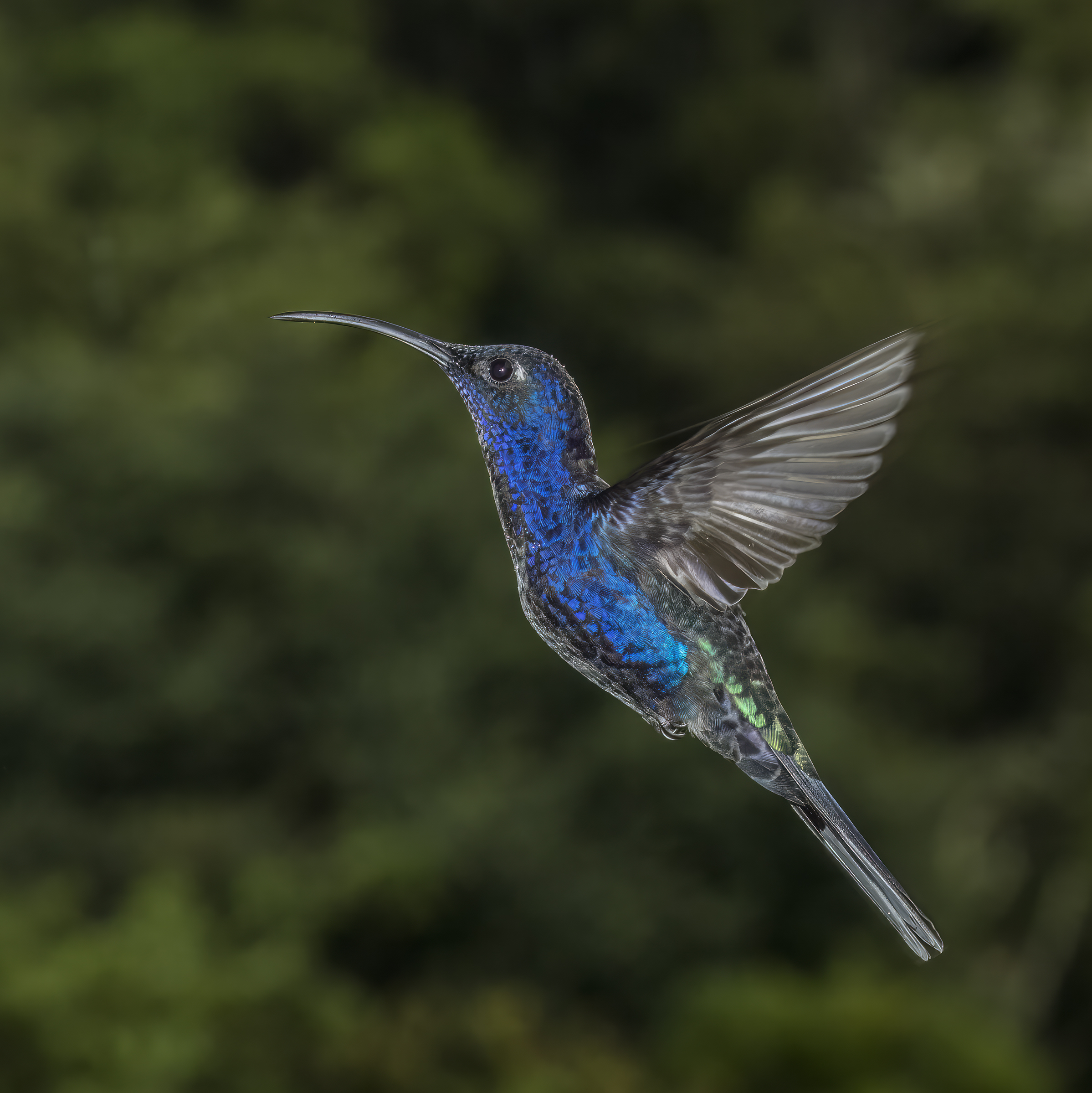 Violet sabrewing (Campylopterus hemileucurus mellitus) male, Mount Totumas cloud forest, Panama